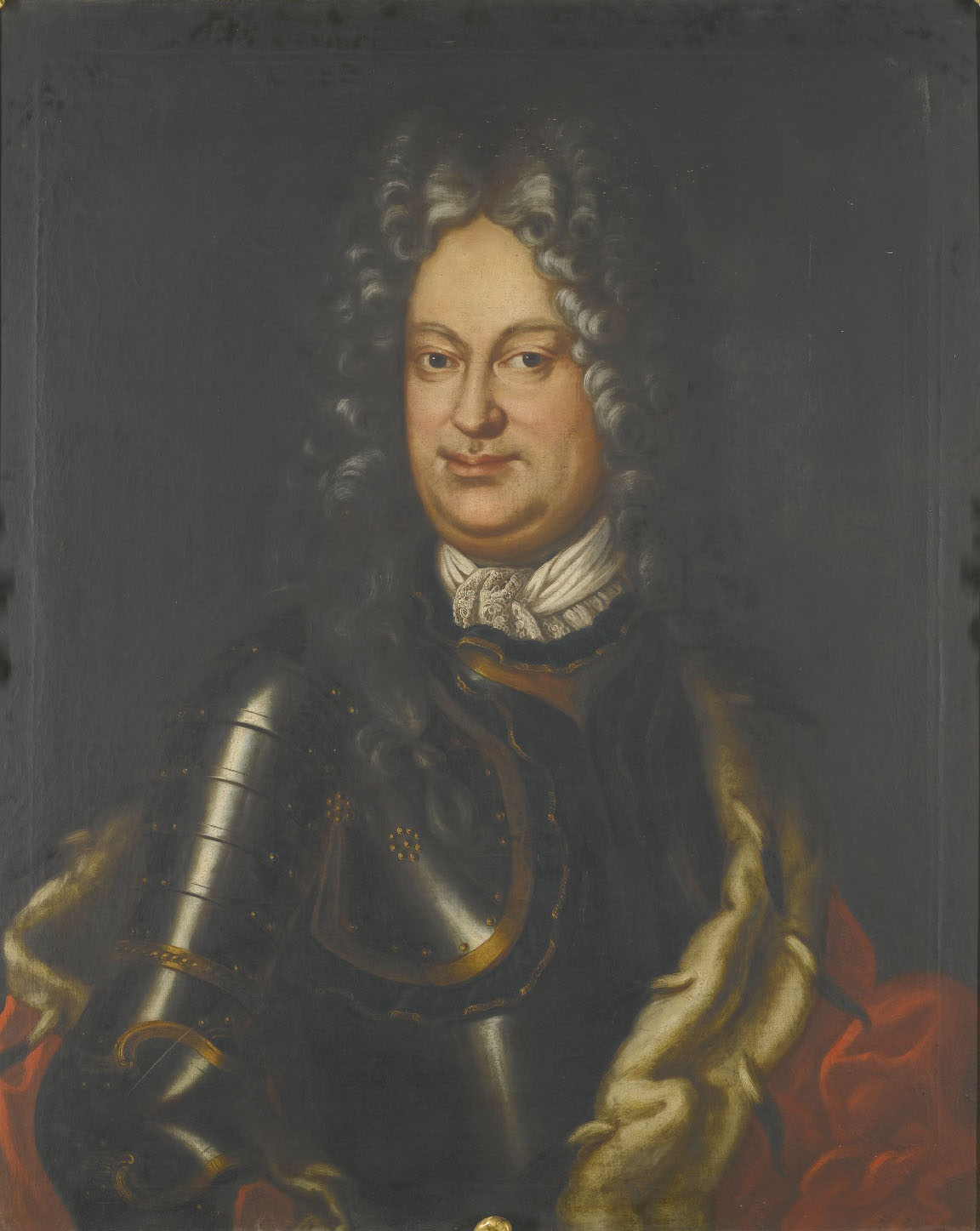 PORTRAIT OF LUDWIG FRIEDRICH, FÜRST ZU SCHWARZBURG-RUDOLSTADT (1667-1718), HALF-LENGTH, WEARING ARMOUR AND AN ERMINE-TRIMMED RED CLOAK